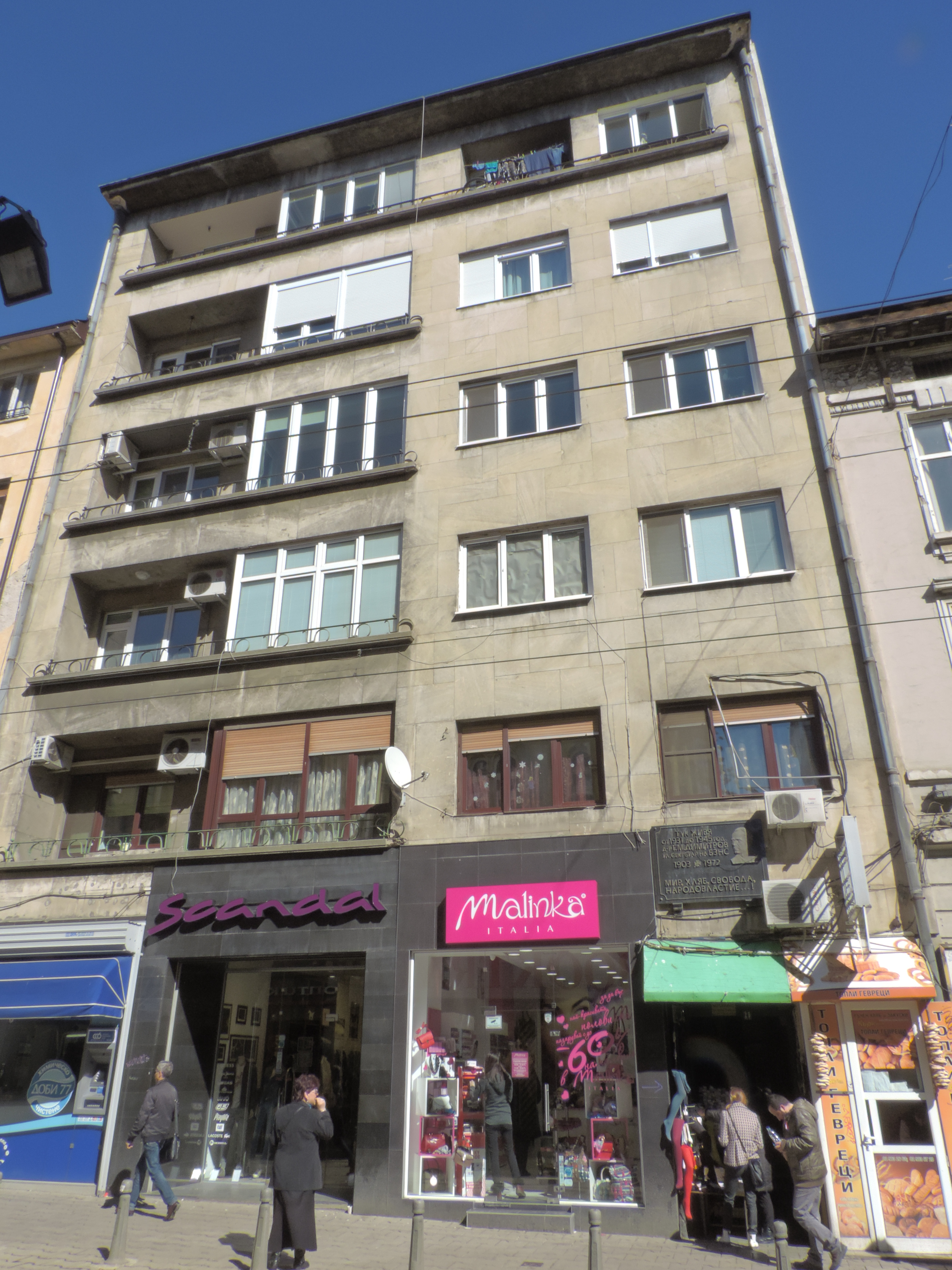 The house on 31 "Graf Ignatiev" Str., Sofia, where the Bulgarian politician G. M. Dimitrov lived from 1931 to 1945.